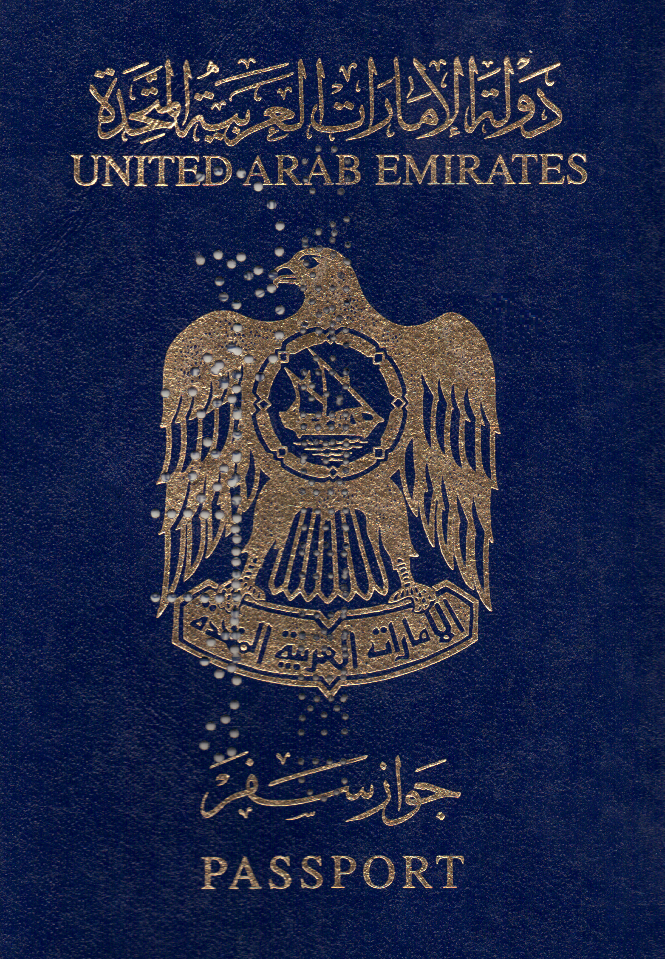 United Arab Emirates passport prior to 2011.